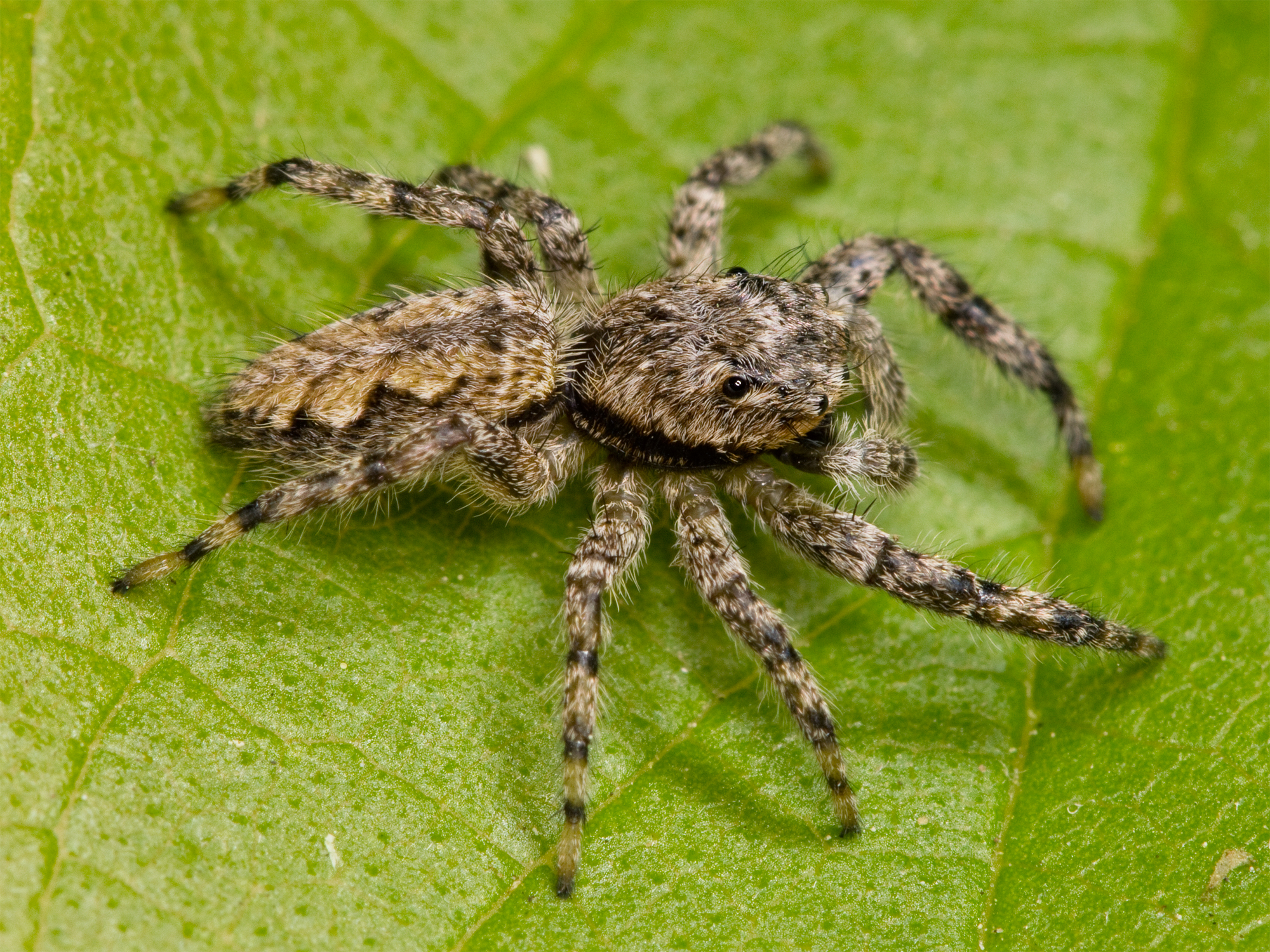 Platycryptus undatus jumping spider in Nashville, Tennessee. Body length: 7 mm.